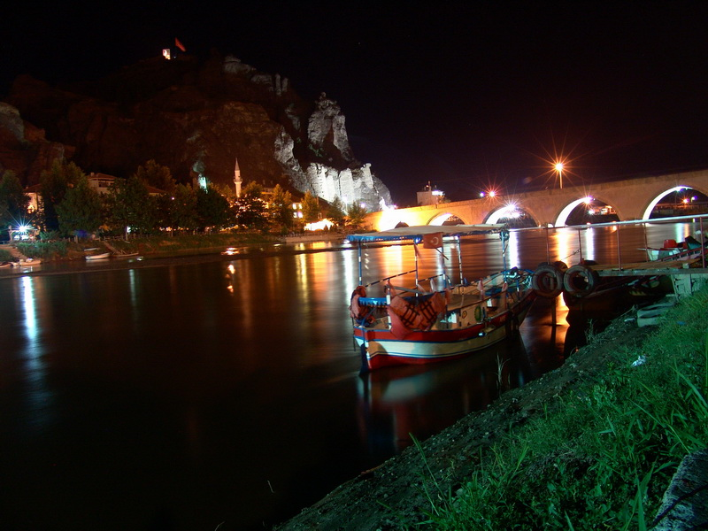 Scene from Kizilirmak and Koyunbaba bridge